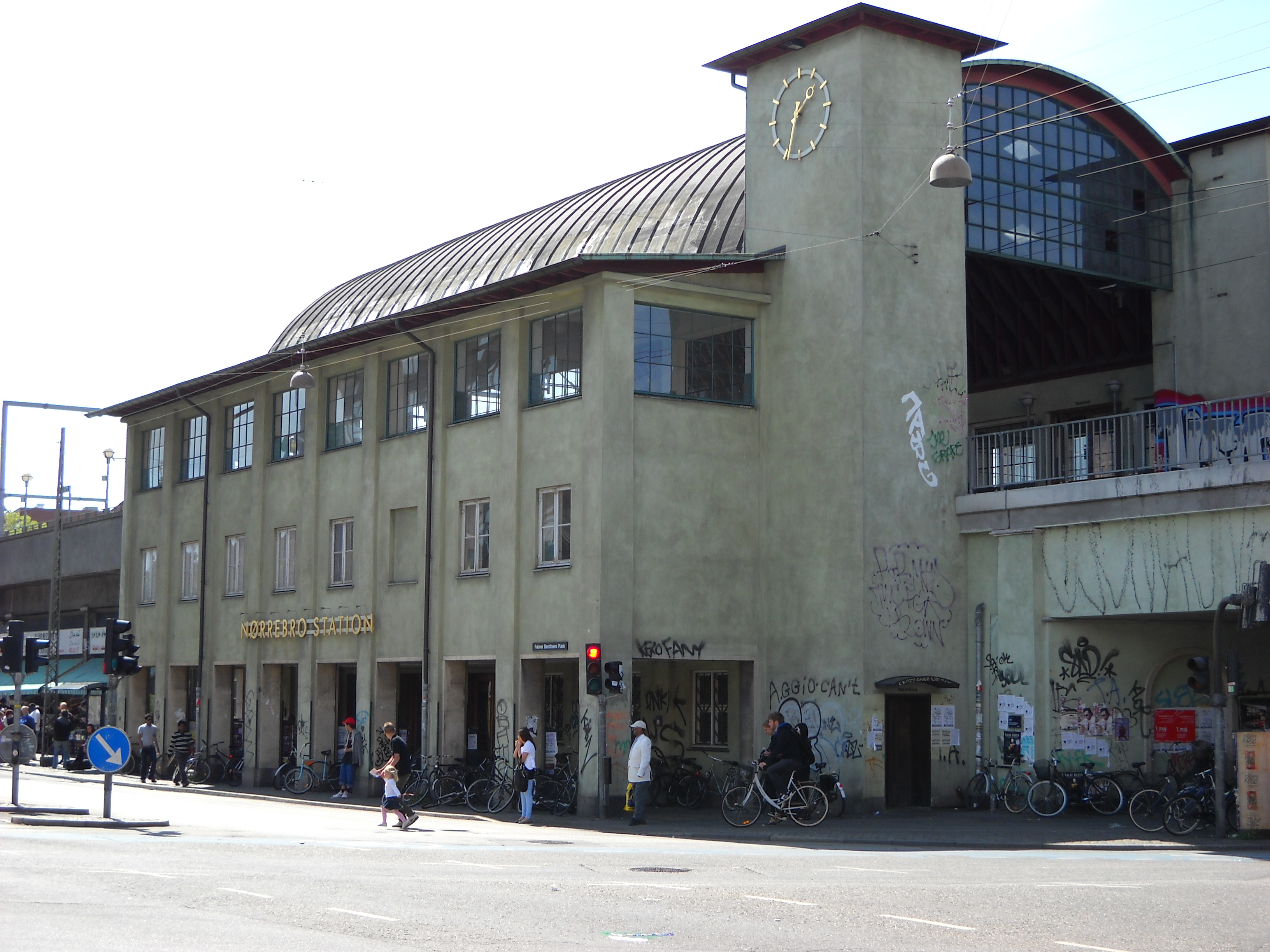 Nørrebro Station, Copenhagen, DenmarkDansk: Nørrebro Station, København, Danmark